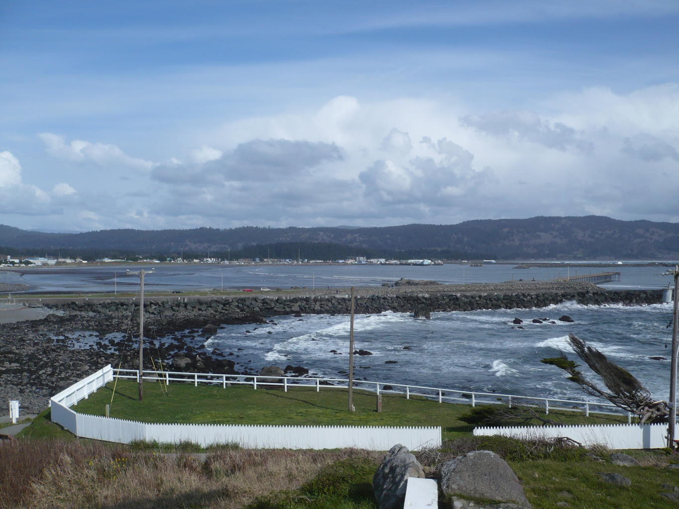 View south to southeast from Battery Point Lighthouse overlooking Crescent City, California. Foreground with cars parked is the jetty. At rear on right is Crescent City Harbor.